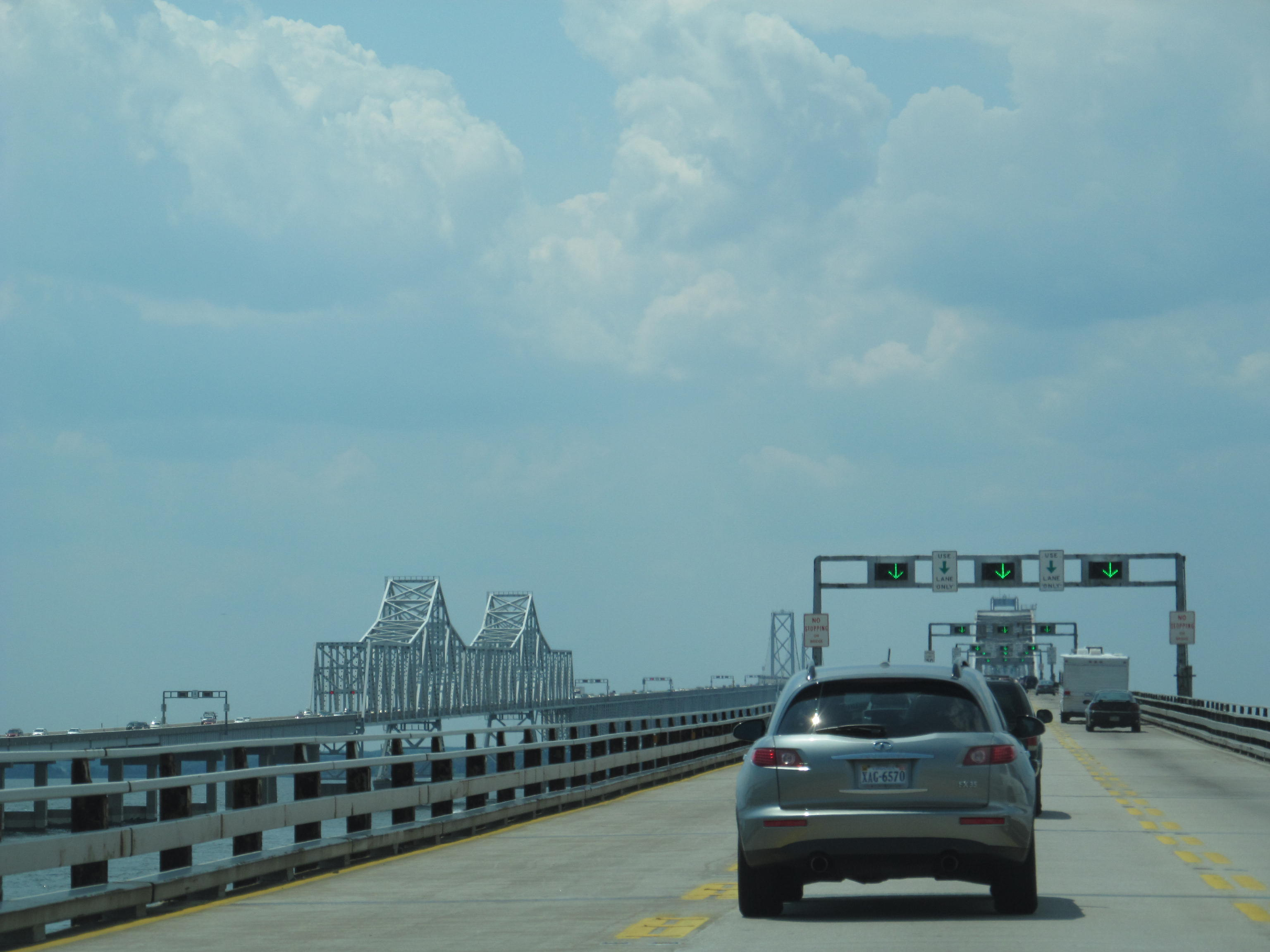 US Route 301 - Maryland